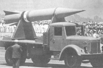 Egyptian al-Kaher-1 in military parade